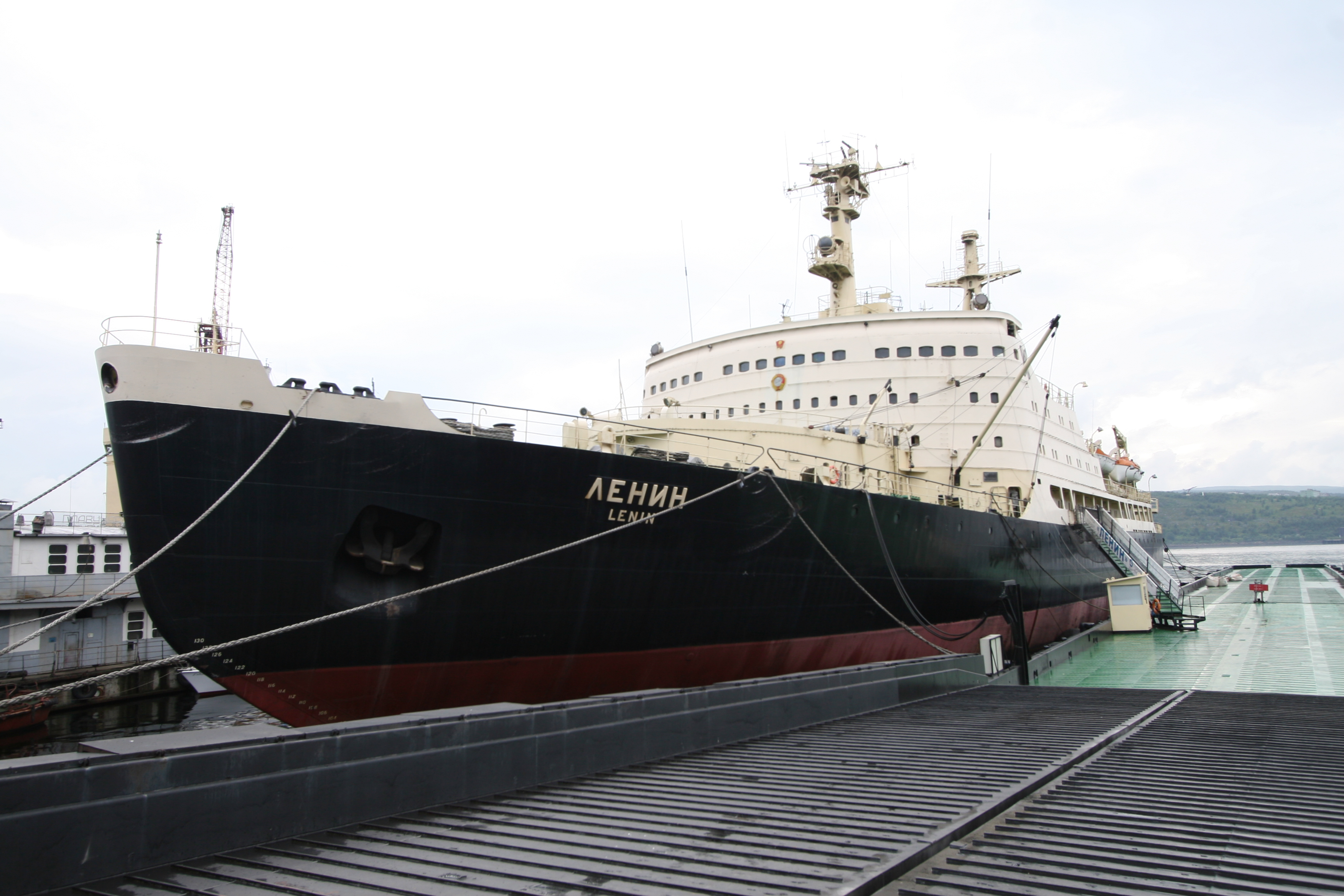 The Lenin nuclear-powered icebreaker docked in the Kola Bay at the Murmansk port.